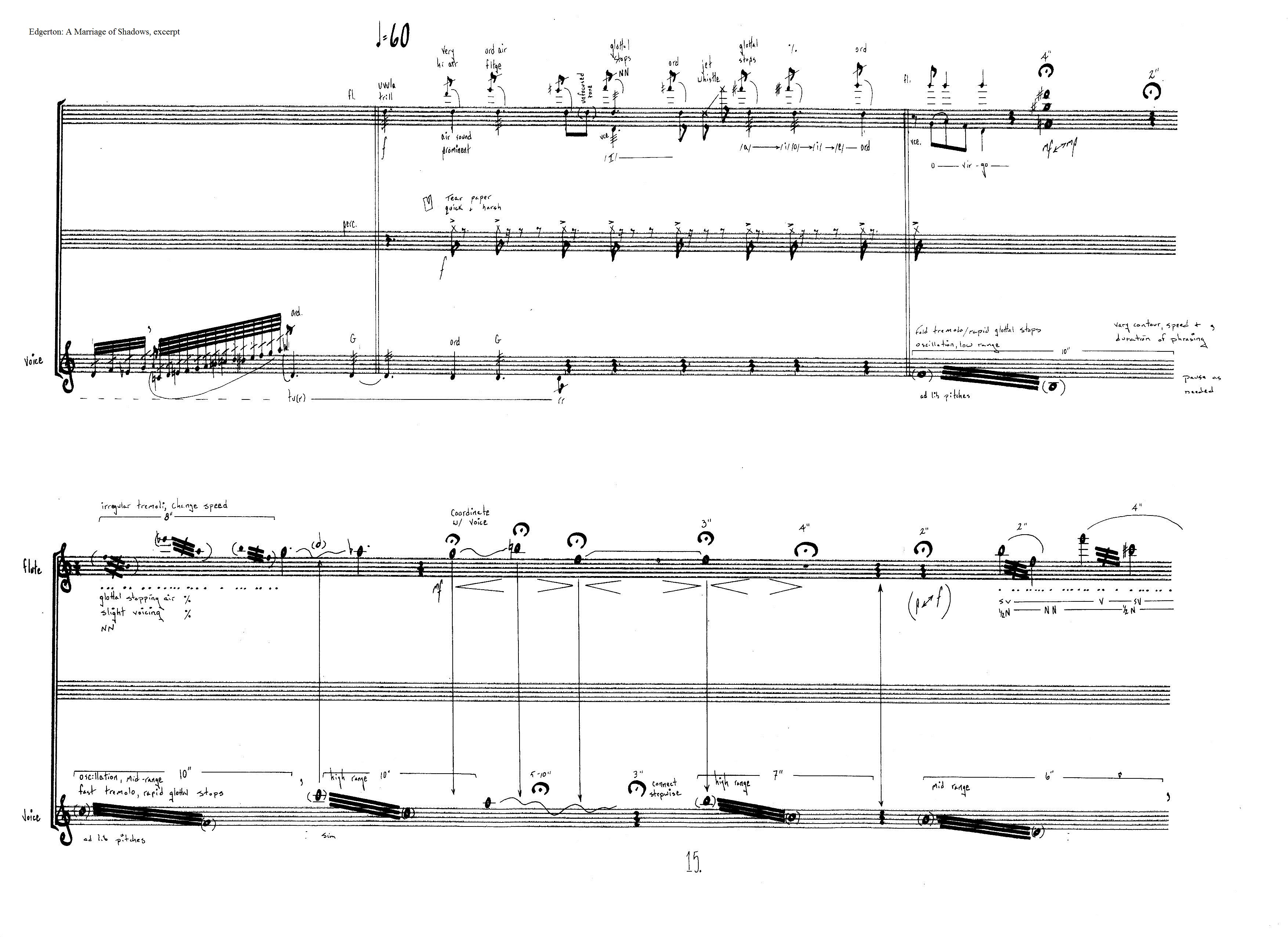 Michael Edward Edgerton_#77_A Marriage of Shadows, for fl, sax, gtr, perc, vce_movement 1, page 15